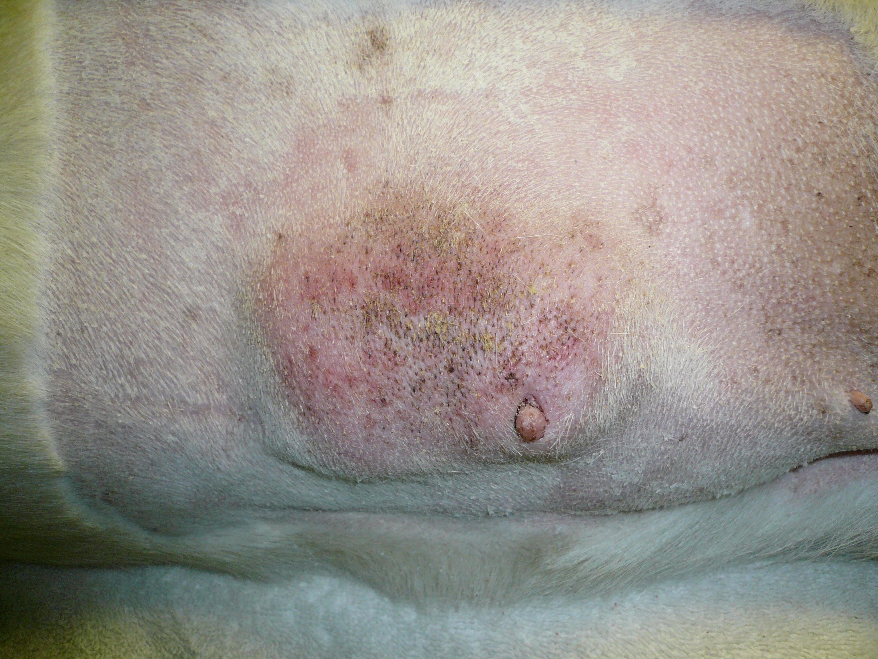 Mammary tumor in a fourteen year old Labrador Retriever. The tumor is about eight centimeters in length. It was confirmed to be a carcinoma on histopathology.